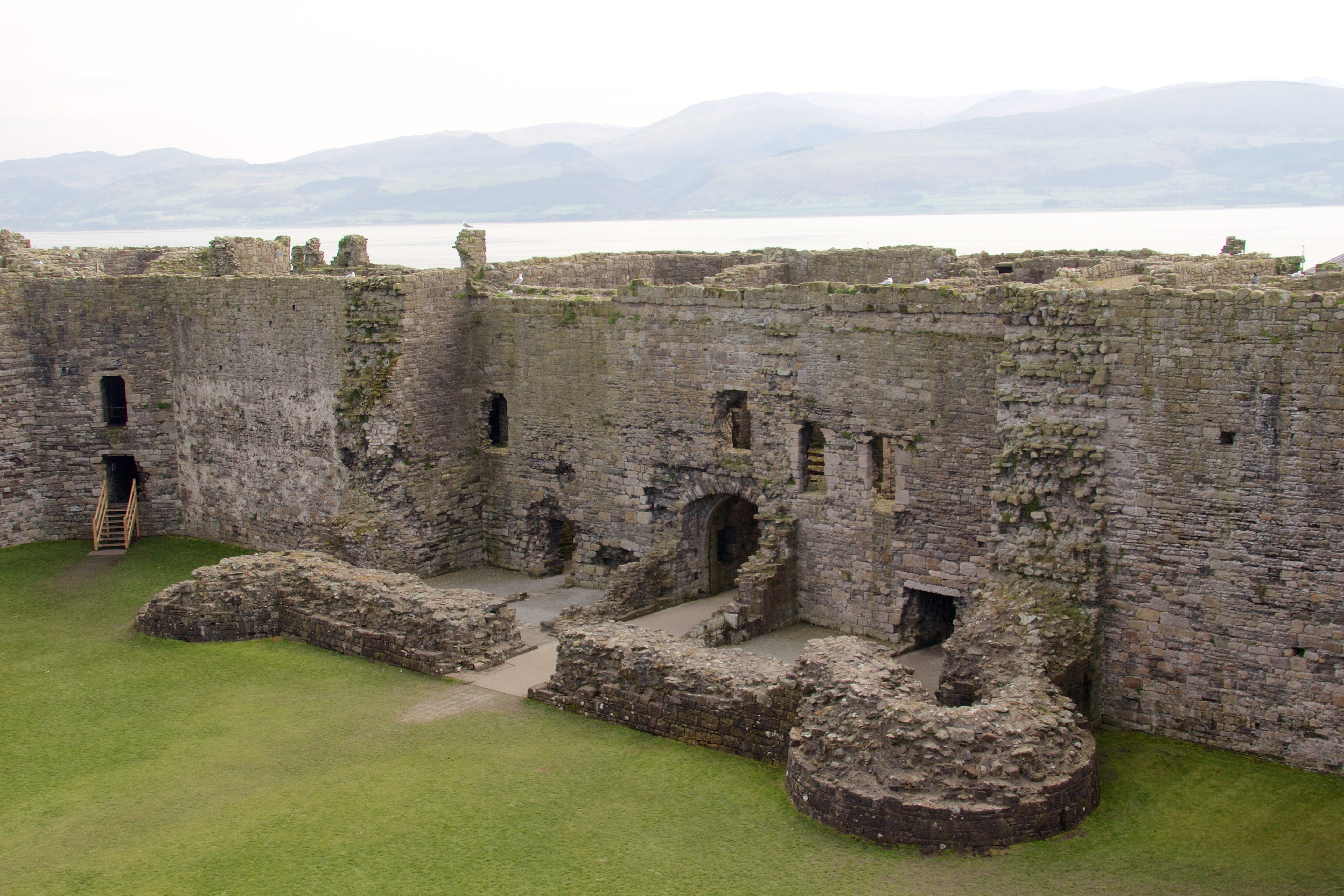 Beaumaris Castle.